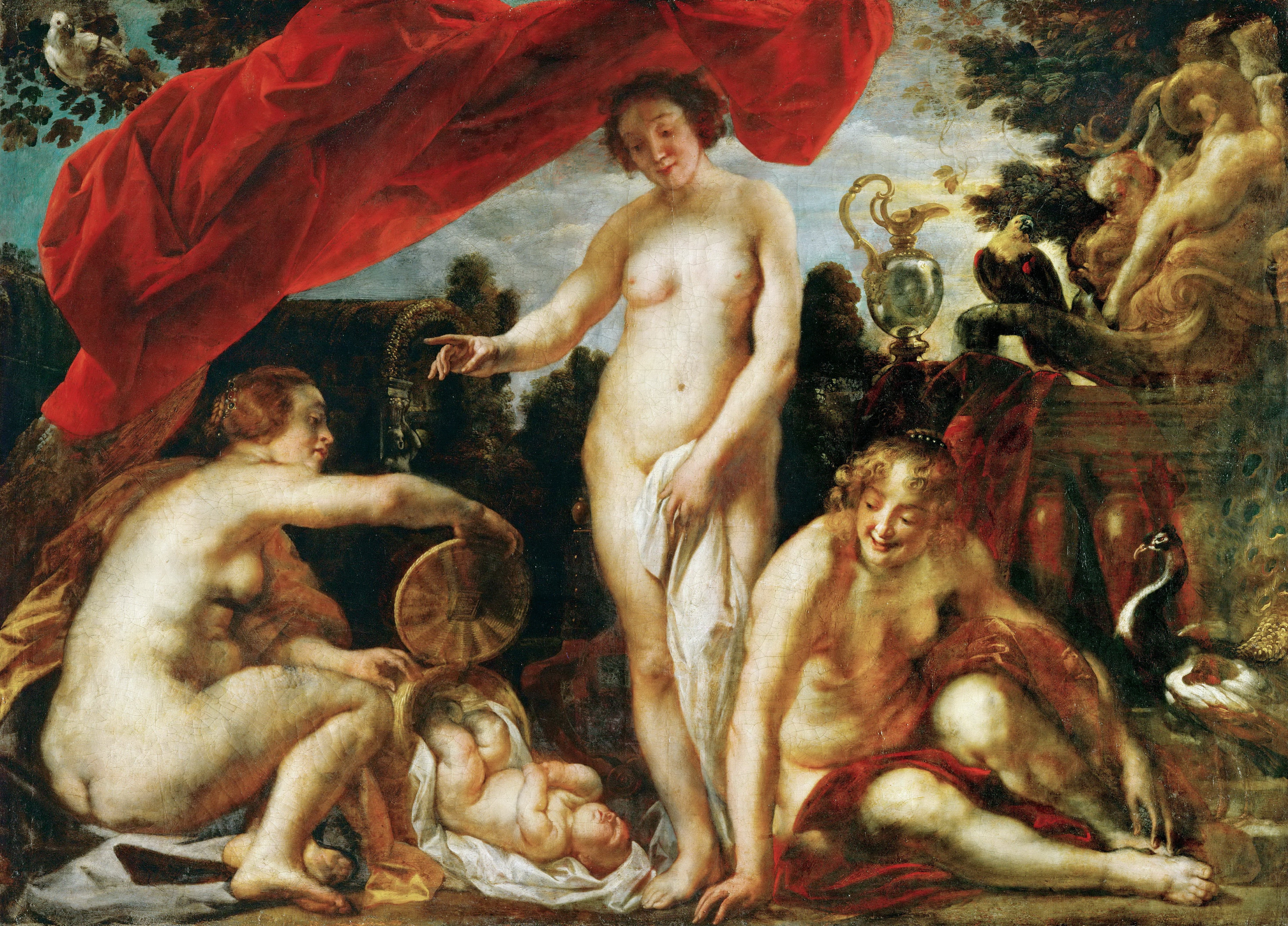 Painting depicts the three daughters of Cecrops, Aglaulus, Herse and Pandrosus, finding the infant Erichthonius.